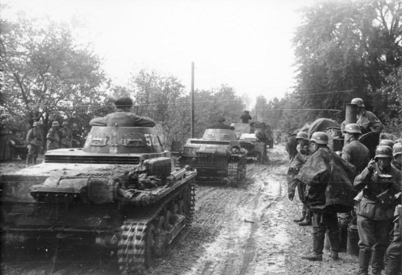 "Poland.- Panzer Is and infantry on muddy road; PK [Propagandakompanie] 637 (East)"